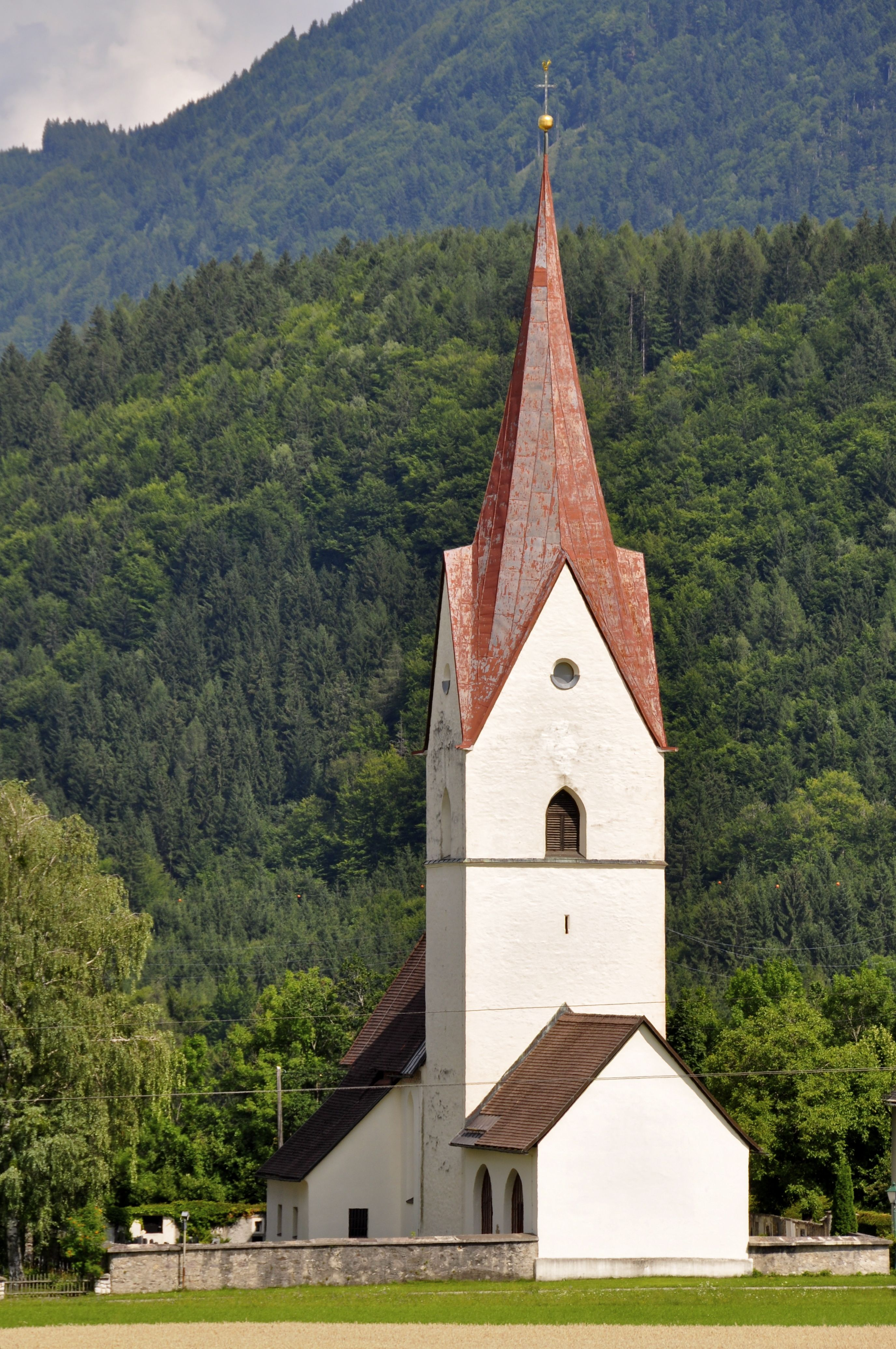 Parish church Saint Andrew at Thoerl-Maglern-Greuth, municipality Arnoldstein, district Villach Land, Carinthia / Austria / EU